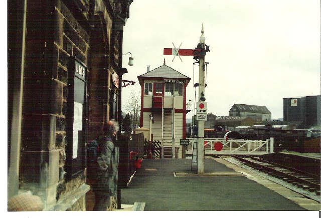 Darley Dale Railway Station (1990s). Lying at the bottom of Station Road in the settlement of Darley Dale, Darley Dale in its current form is not the first station to have existed upon the site. That halt was built in 1849, by the Manchester, Buxton, Matlock and Midlands Junction Railway, and existed on the other side of the level crossing. The present structure dates back to 1873, and at one time the station possessed both a footbridge and a goods yard.